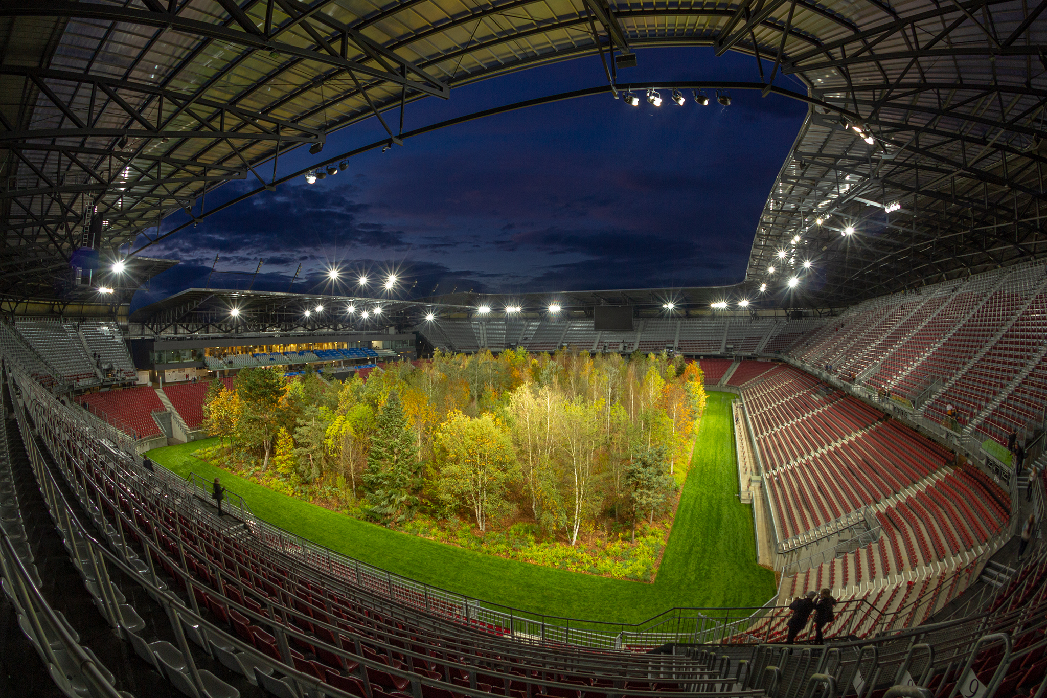 "For Forest. The Unending Attraction of Nature” was a temporary art intervention by Klaus Littmann in the football arena of Klagenfurt, Austria. The project was based on the pencil drawing “The Unending Attraction of Nature” by Max Peintner from the 1970s, which shows a small forest in a crowded stadium, surrounded a highly indistrialized world.